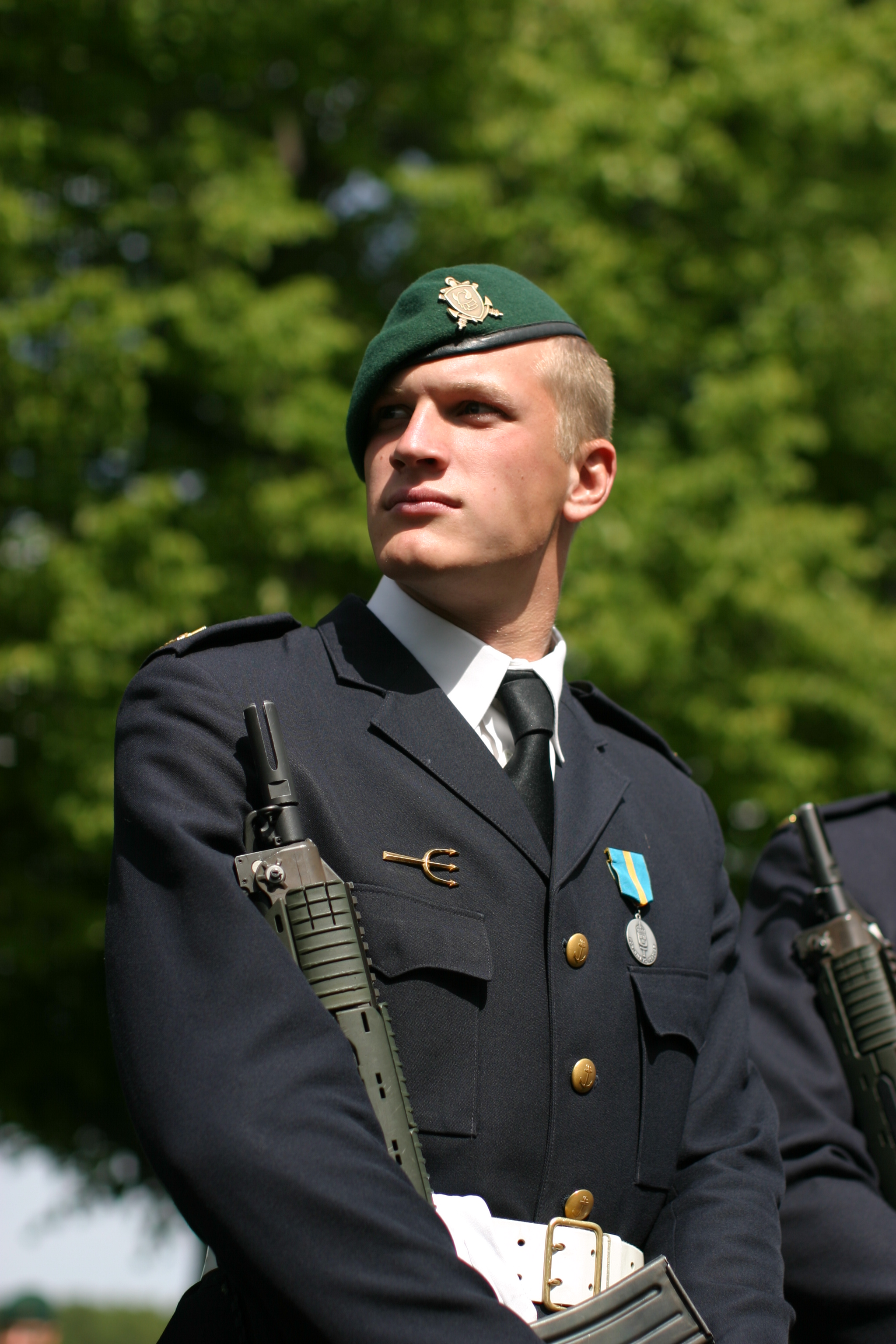 The trident. The insignia recognises those service members who have completed the Swedish Amphibious Corps Basic training for Coastal Rangers and have been designated as Coastal Rangers.